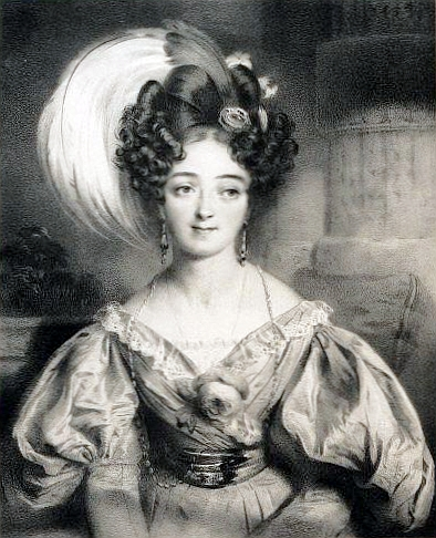 Italian/Swedish ballerina Marie Taglioni (1804-1884).